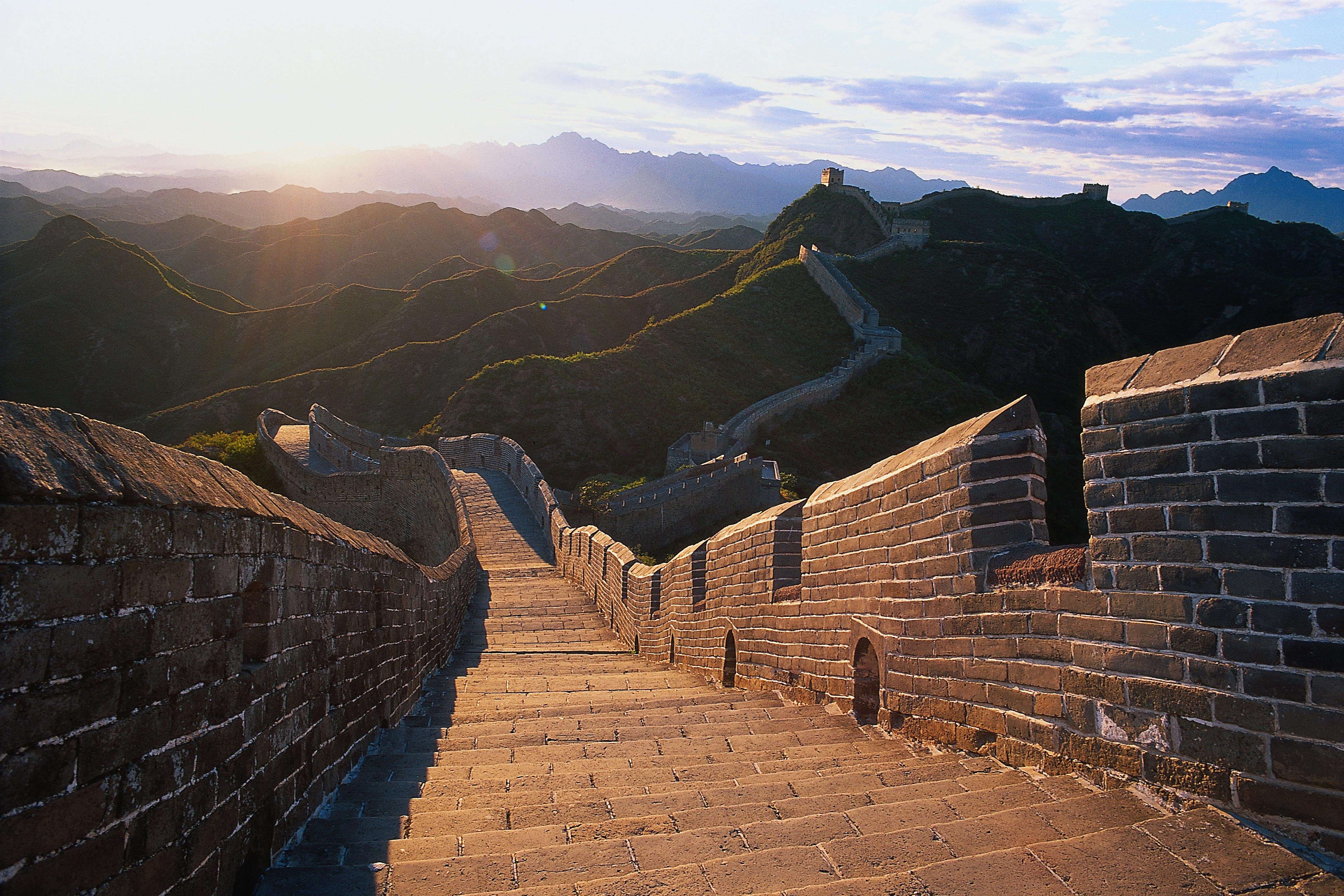 One of the greatest wonders of the world, the Great Wall winds up and down across deserts, grasslands, mountains and plateaus stretching approximately 6,700 kilometers (4,163 miles ) from east to west of China.The Great wall